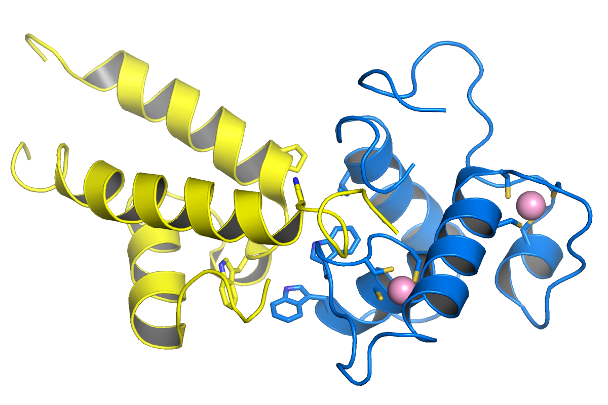 The SV40 polyomavirus small tumor antigen (STag) J domain (yellow) and unique region (blue). Key residues in the interface between the two domains are shown as sticks. Two bound zinc ions are shown as pink spheres, with their coordinating cysteine residues shown as sticks. The interface with the PP2A B56 subunit present in the same crystal structure is located to the bottom of the figure (compare File:2pf4 pp2a stag.png). Rendered from PDB ID 2PF4. PLoS Biol. 2007 Aug;5(8):e202. Structural basis of PP2A inhibition by small t antigen. Cho US, Morrone S, Sablina AA, Arroyo JD, Hahn WC, Xu W. PMID 17608567.